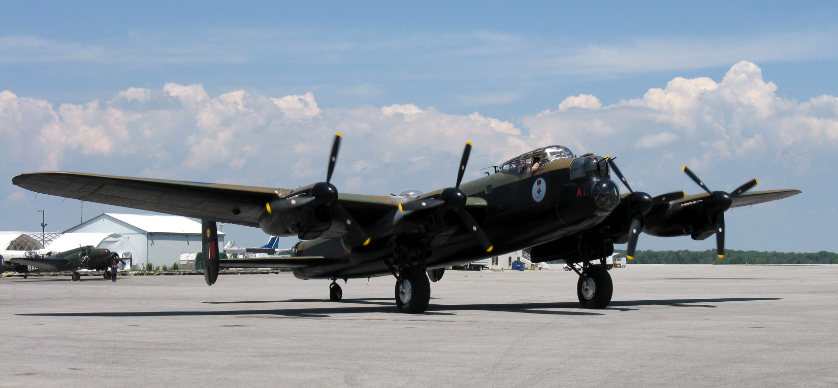 Lancaster Mk. X at at Canadian Warplane Heritage Museum.